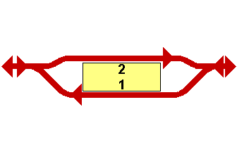 Diagram of Crossing Loop showing Up & Down working